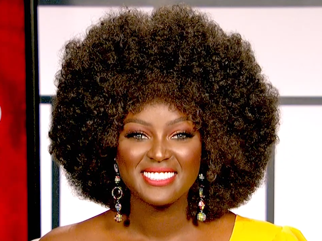 Amara La Negra during an interview in December 2018